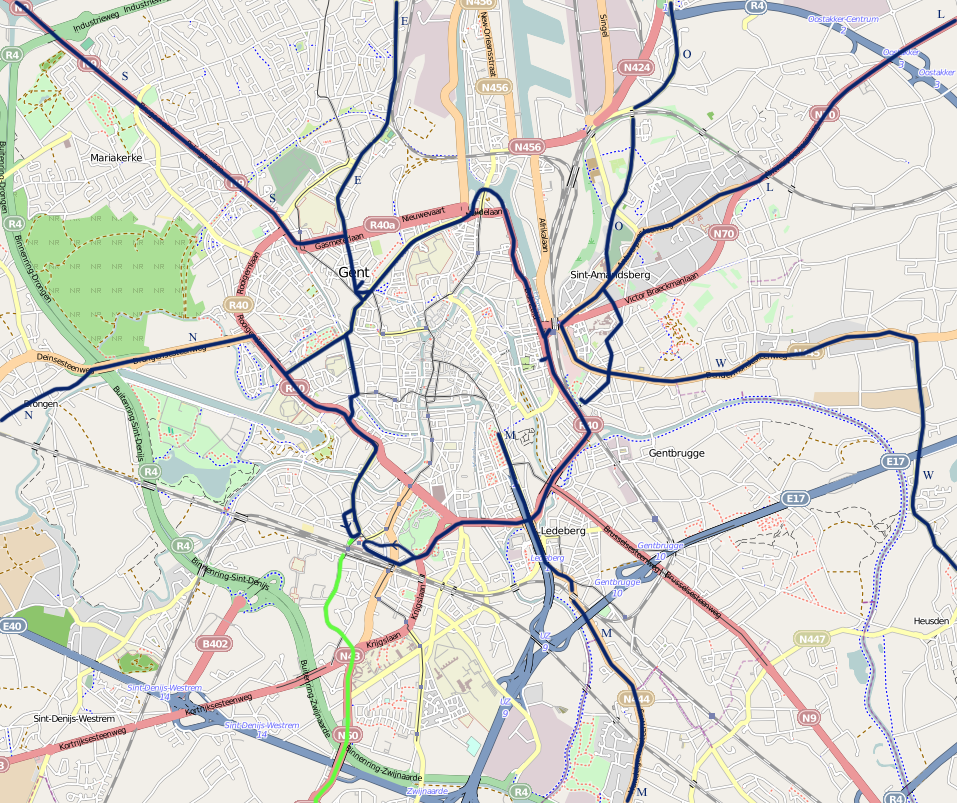 The SNCV network in Ghent around in 1946. All blue lines are electric. The green one is non-electric.